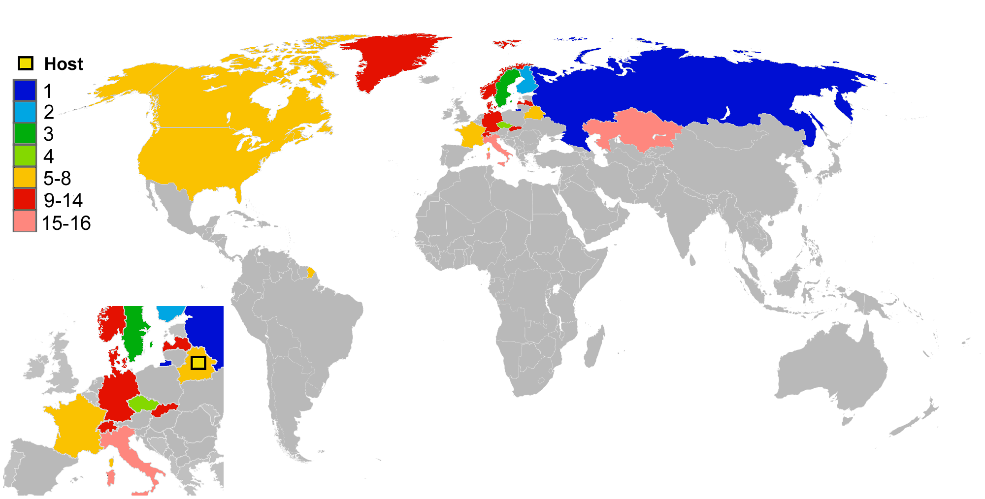 Participants of 2014 IIHF Mens World Championship and their results